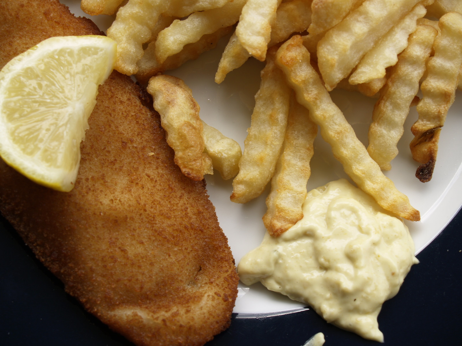 Fish fillet with pommes frites and Danish remoulade